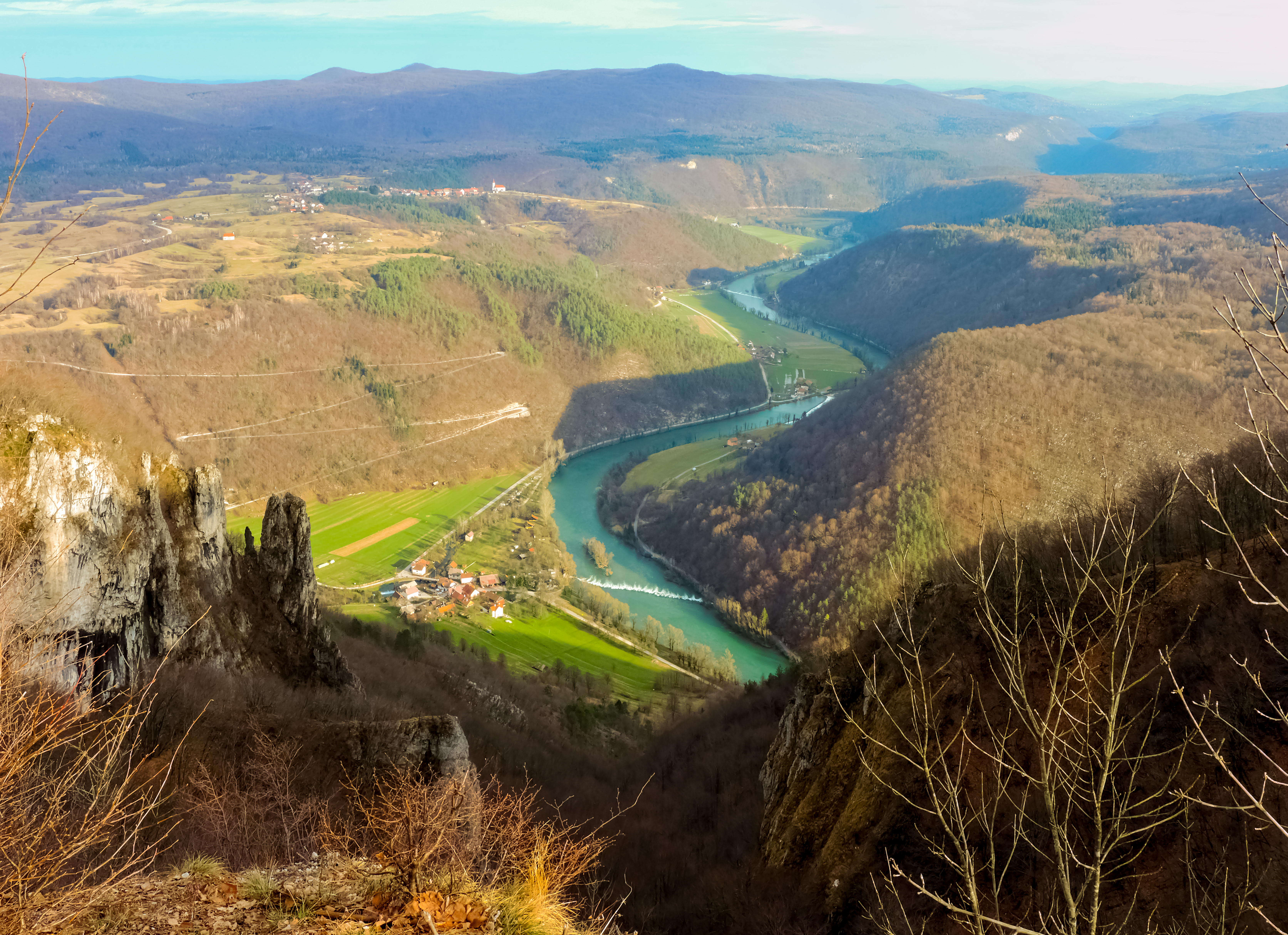 Image was taken from "Kozice razgledna točka" (Kozice viewpoint). It as accessible by car, mostly through a forest road. The village below is called "Dol". Following down the river is "Kovača vas" (Kovača village) and Prelesje. The church visible in the distance is the village of "Stari trg" (Old market). Sodevci village is also visible in the upper center of the photo, as is "Sodevska stena", seen above Sodevci. If you follow the river to the upper right of the picture you can faintly see the silhouette of a highway viaduct in Bosiljevo, Croatia. Also, everything on the right of the river is Croatia.